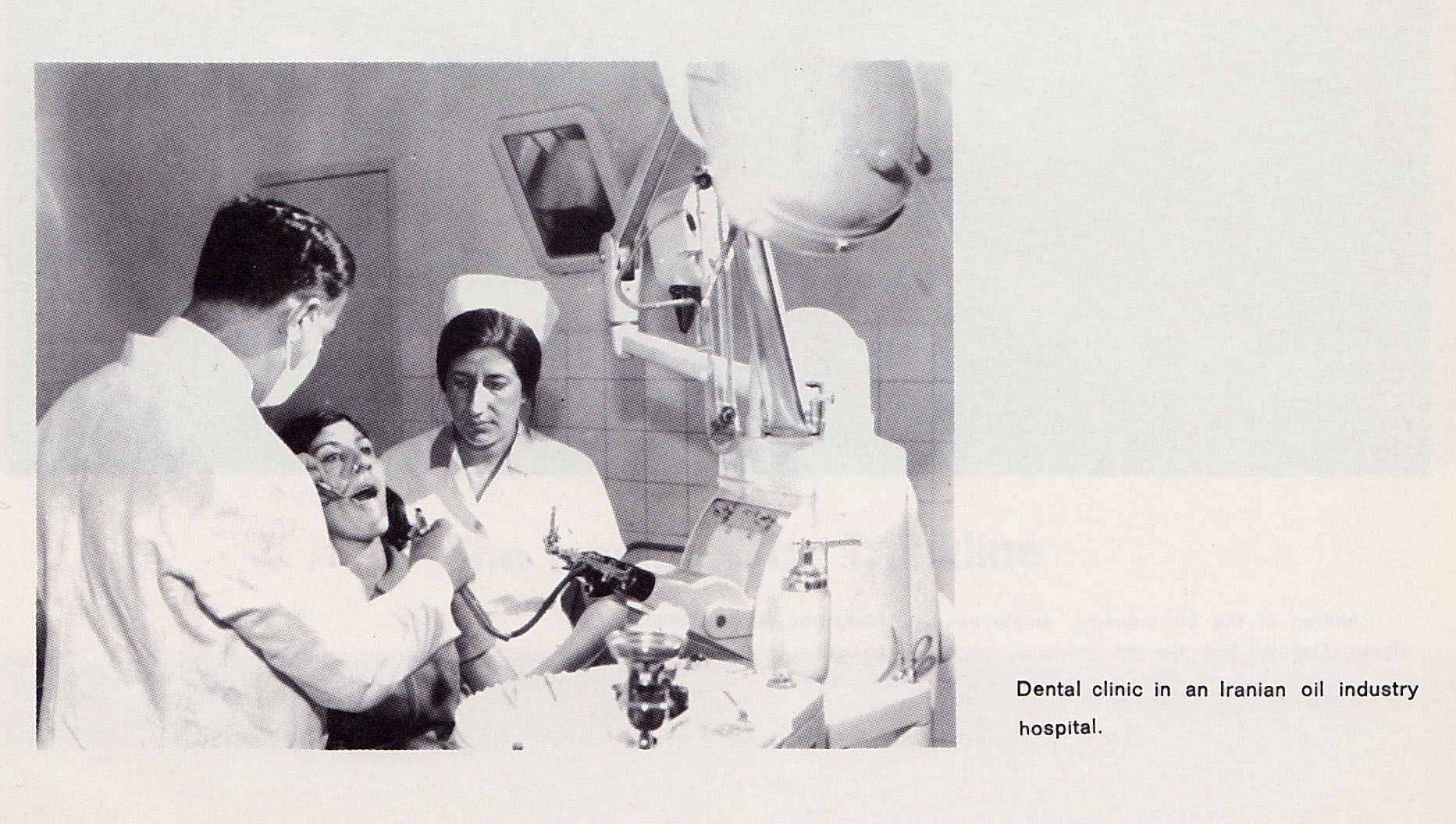 National Iranian Oil Dental Clinic.